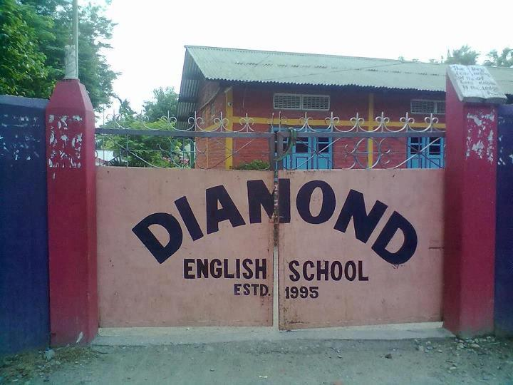 Its the main Entrance of Diamond English School Harisinga